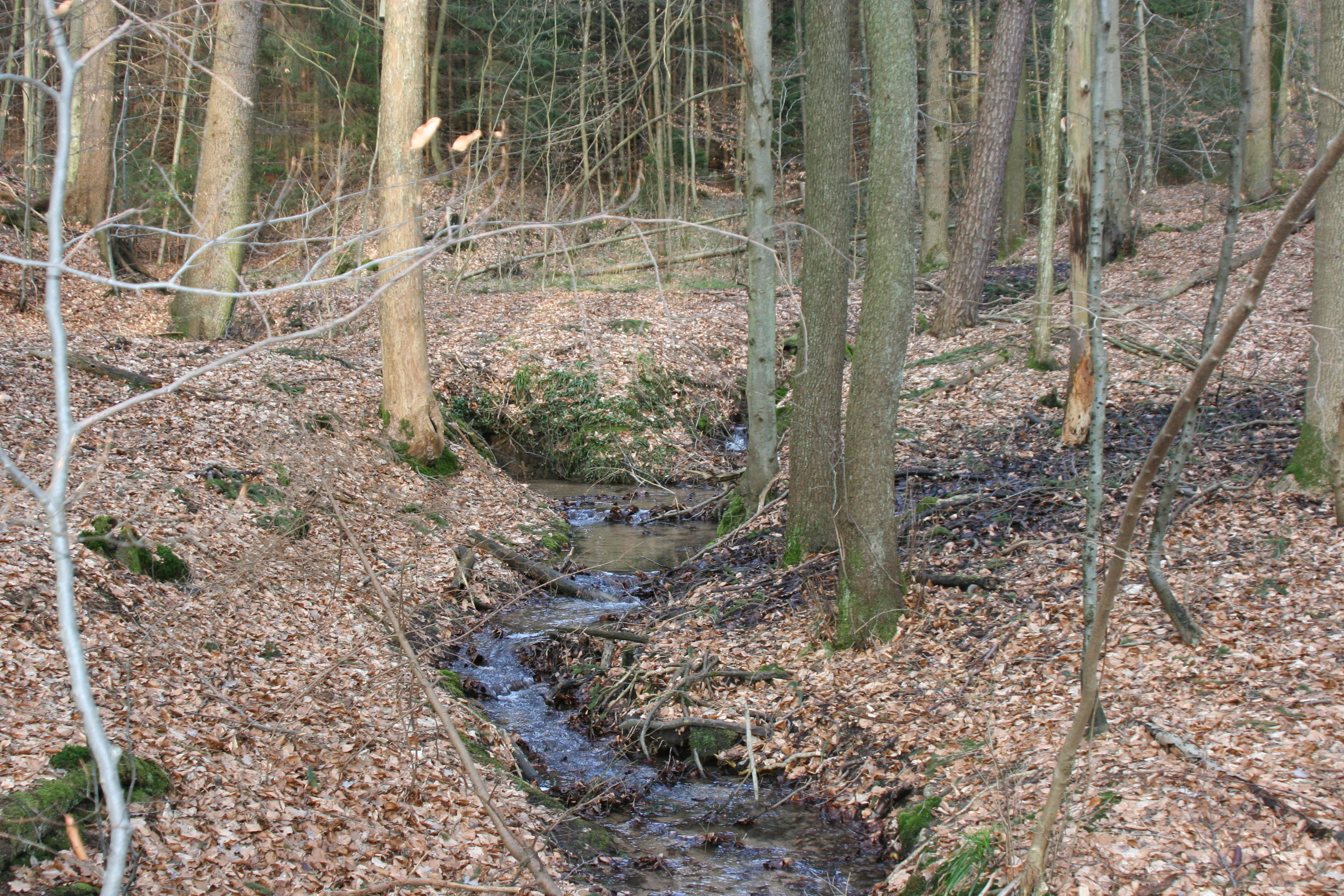 One of the creeks that form the Sulm river in Löwenstein. In the background two creeks join.